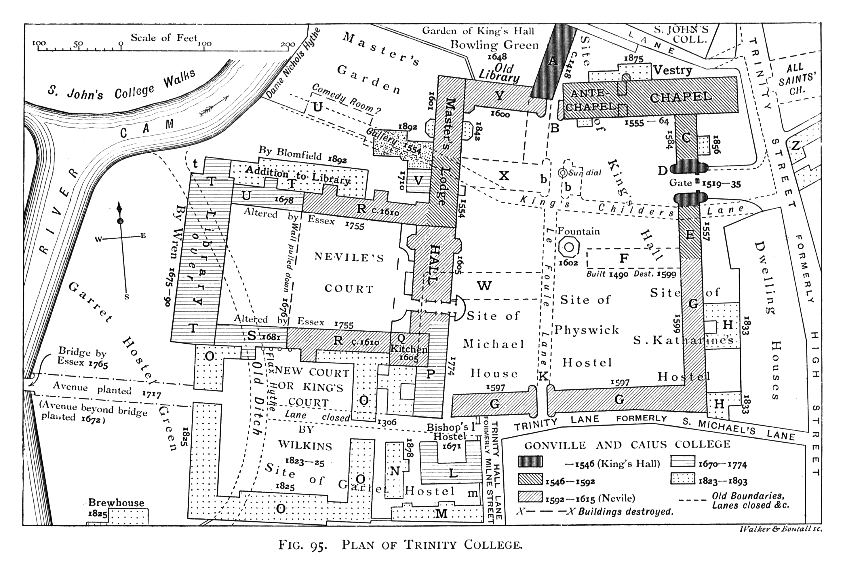 Plan showing the historical architectural development of Trinity College, Cambridge